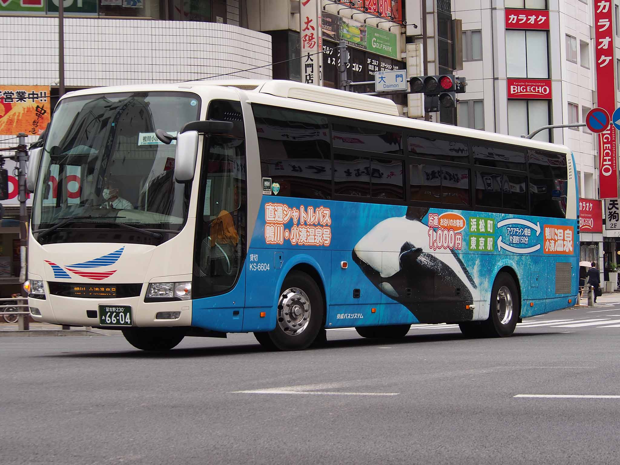 Fleet of Keisei Bus System, operation as "Kamogawa Kominato Onsen (Hot Springs) " from Hamamatsucho, Tokyo. Model: Mitsubishi Fuso Aero Ace MS96VP License plate: CBN230A6604 Place: Hamamatsucho, Minato Ward, Tokyo Japan